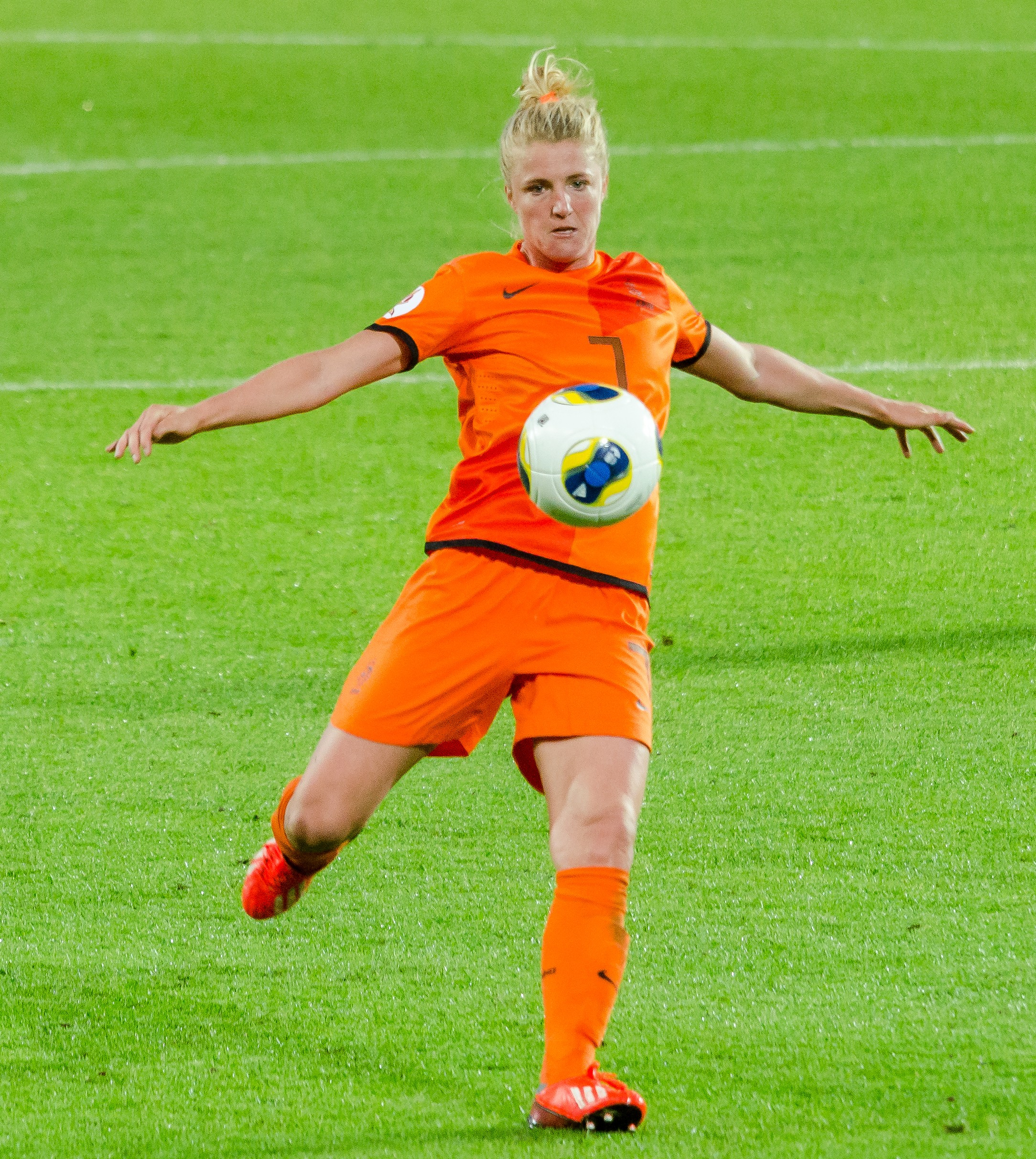 Dutch winger Kirsten van de Ven playing the team's first game of the UEFA Women's Euro 2013, 0-0 against Germany in Växjö.